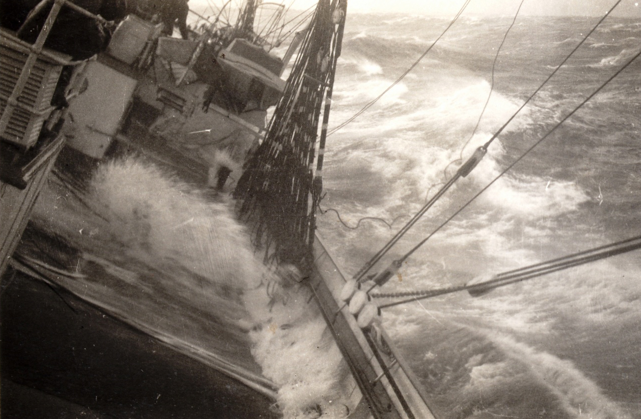 Suomen Joutsen in a storm during her third school sailing.